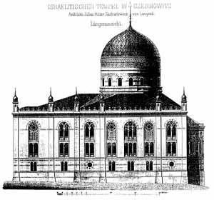 Synagogue in Czernowitz, built in 1877 par architect Zachariewicz. Drawing of the south side.